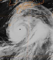 Typhoon Abby, 1983